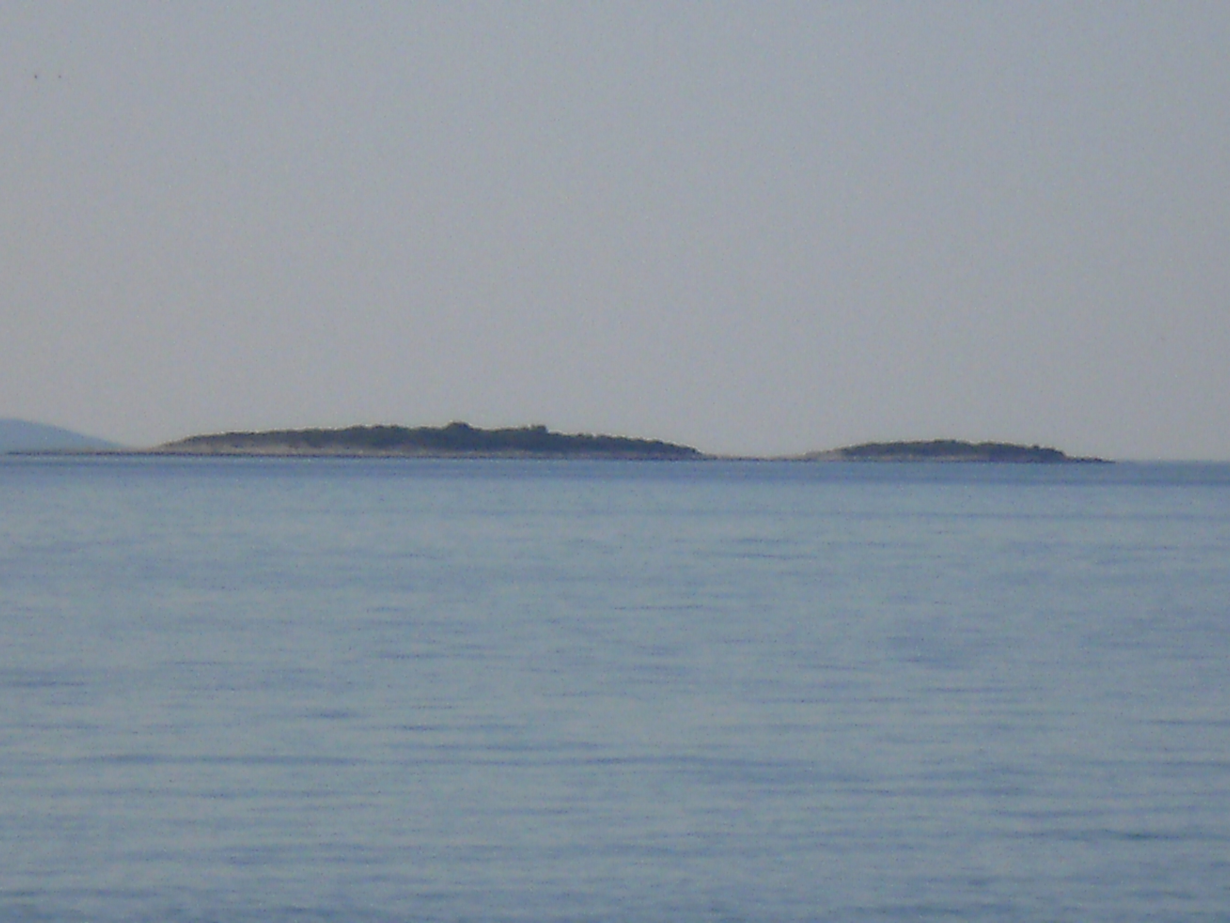 Island of Bisače